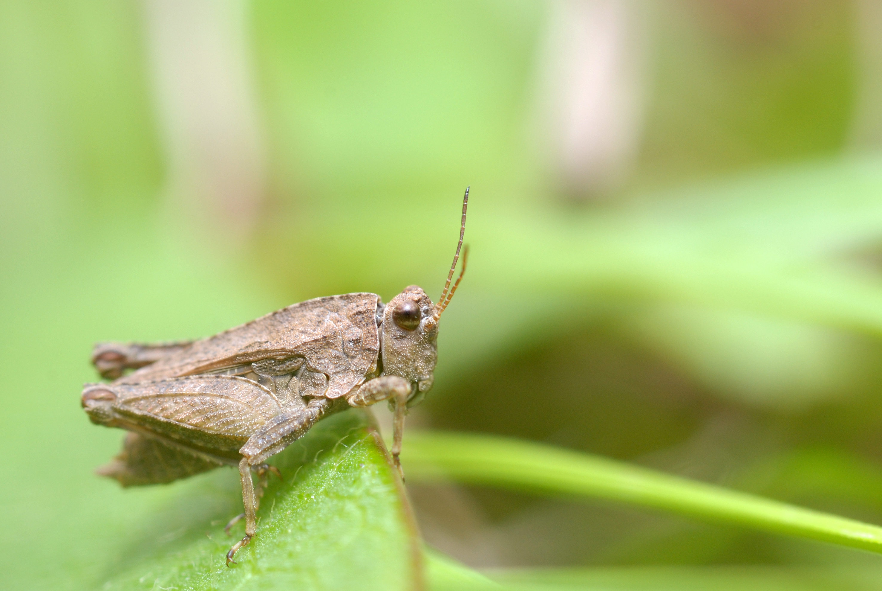 Tetrix tenuicornis